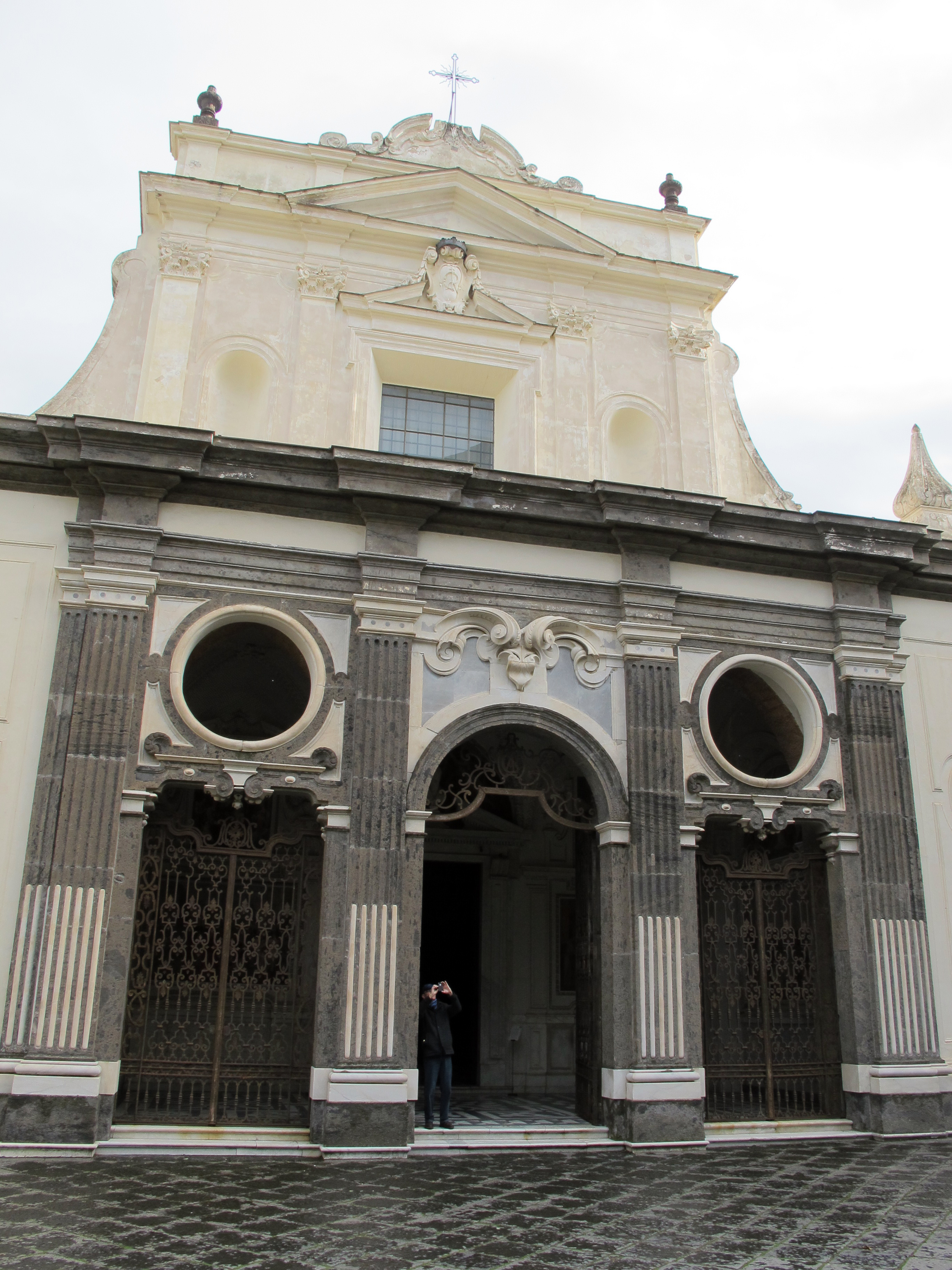 Certosa di San Martino (Naples) - Church